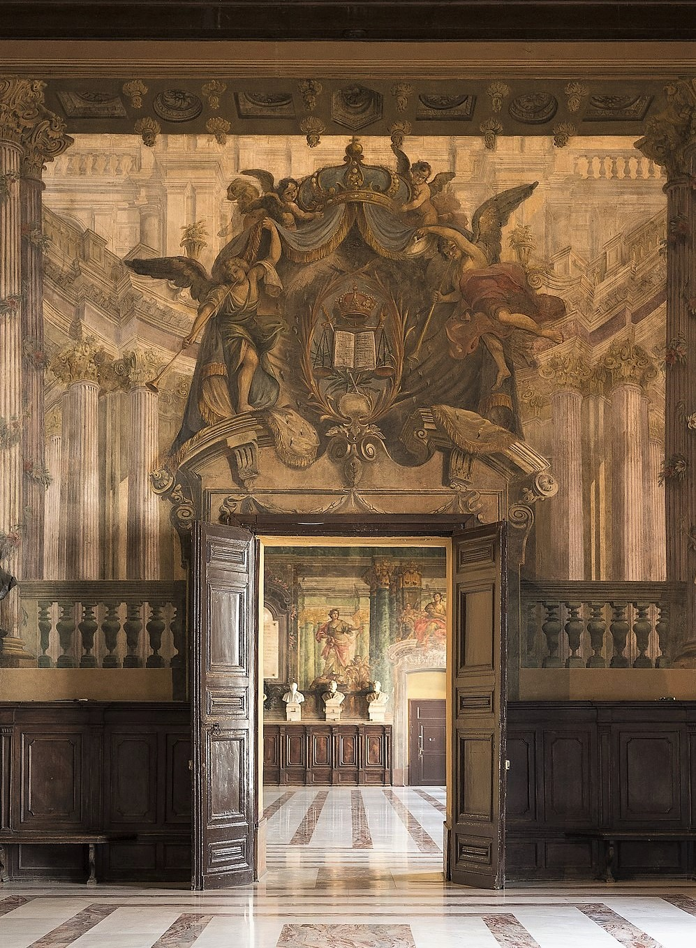 Castel Capuano Salone dei busti